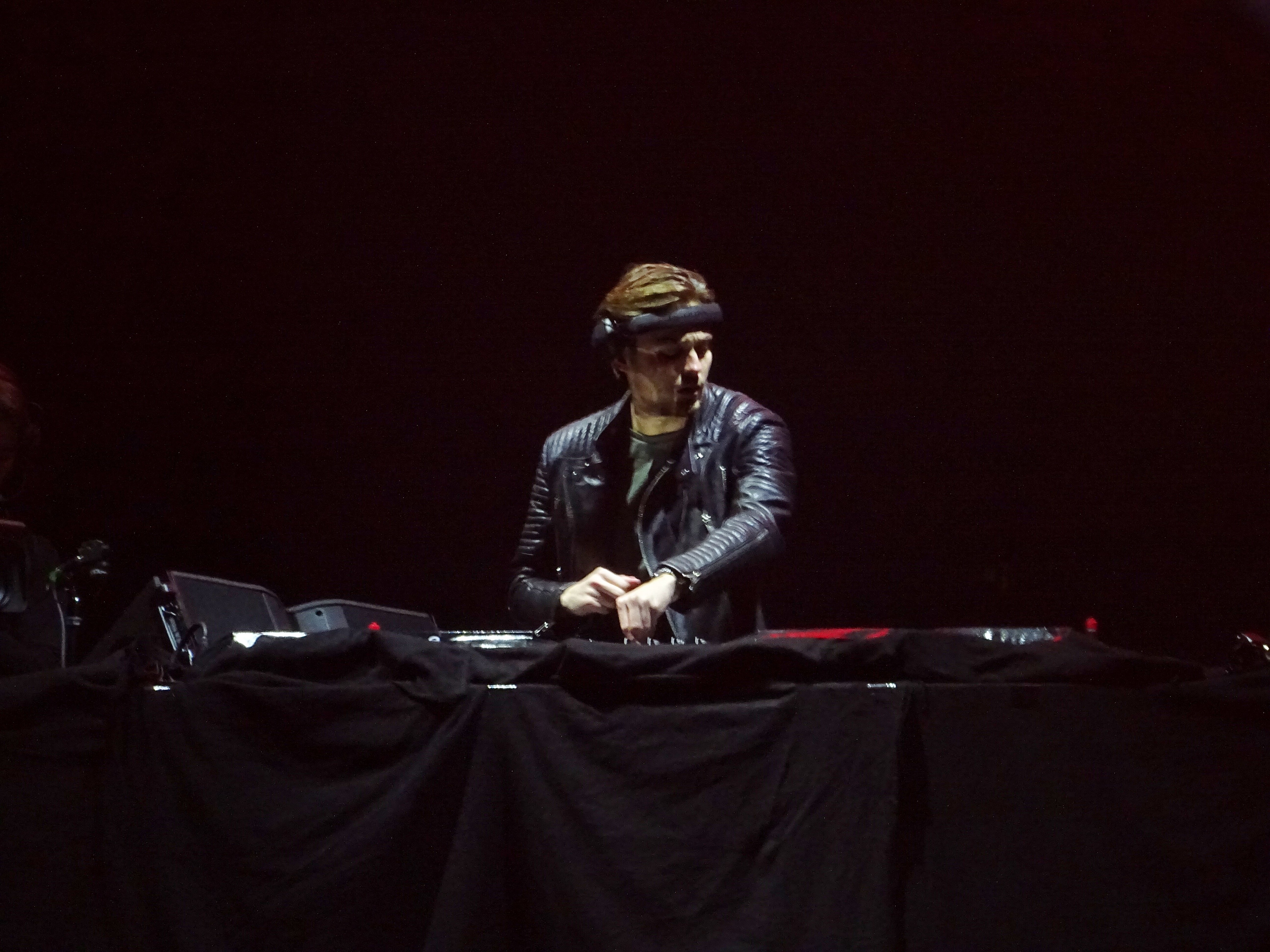 Julian Jordan playing live as a support act for Martin Garrix appearance at BigCityBeats World Club Dome Winter Edition 2017.